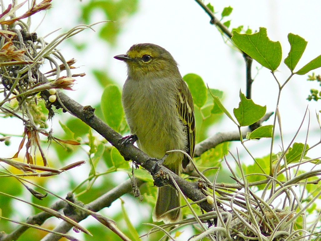 Dapa, West Andes, Colombia - 1700 masl